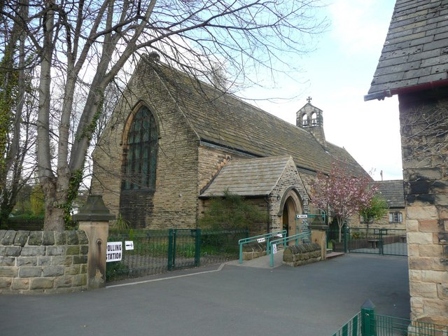 St John's parish church, Horbury Bridge, West Yorkshire, seen from the east. It was serving as a polling station when photographed.